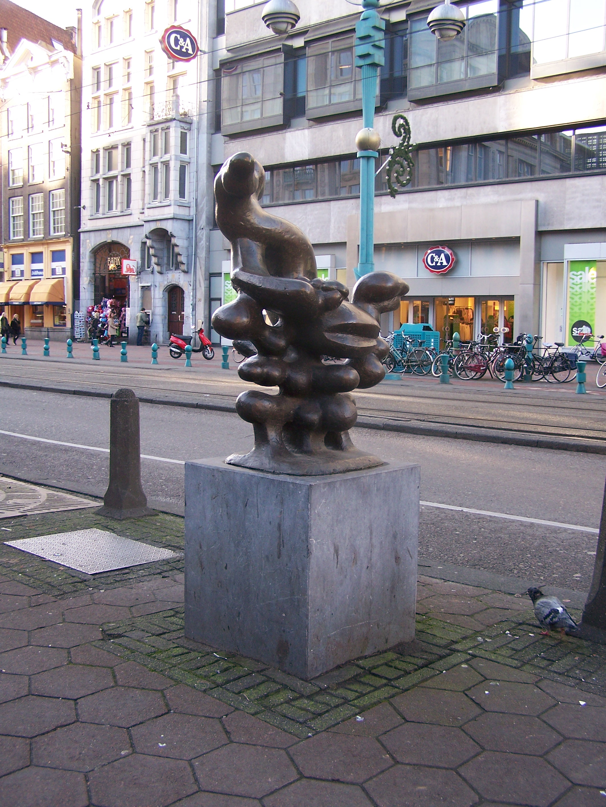 Sculpture "Jonas en de Walvis" (Jonah and the whale), made by Nic Jonk in 1968 and streetlamps by Tom Postma/Alexander Schabracq, Damrak in Amsterdam.